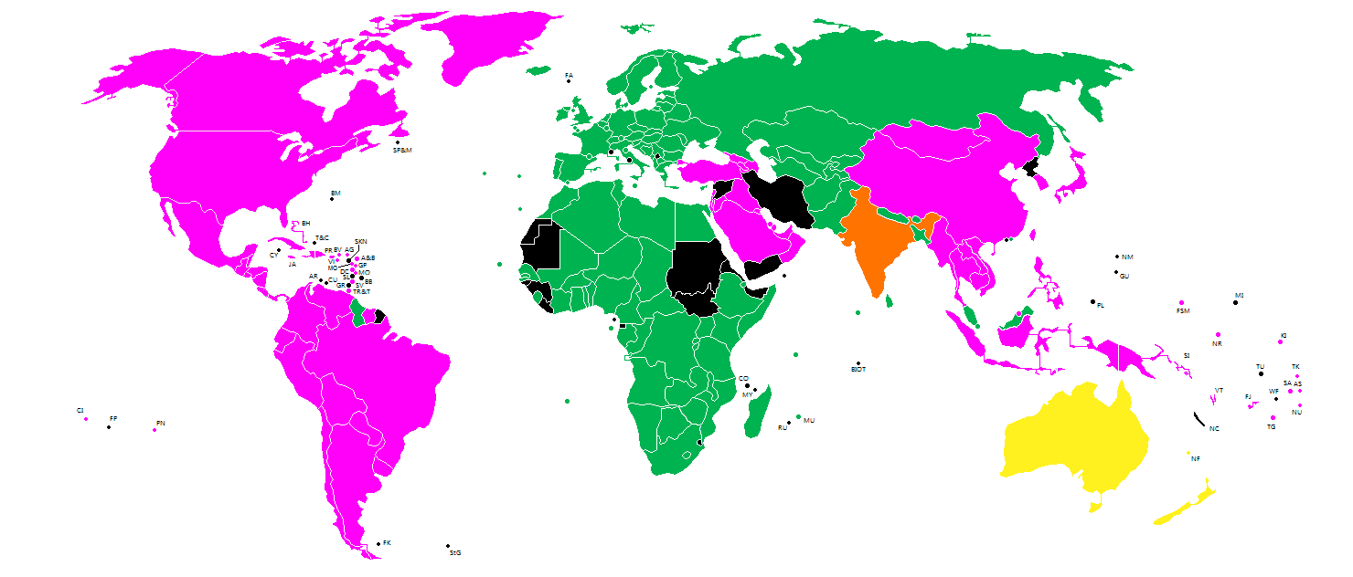 A map indicating the accent of English that the "text-to-speech" audio of Google translate of each country uses, green for British English, pink for American English, yellow for a special Oceania accent, orange for a special Indian accent, black for no Google translate service.